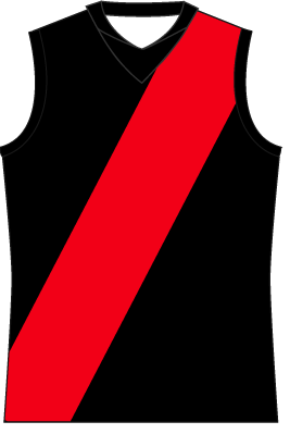 Sports uniform of the Essendon Football Club. Trademark of the Australian Football League.